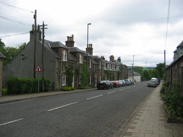 Broughton, Peeblesshire